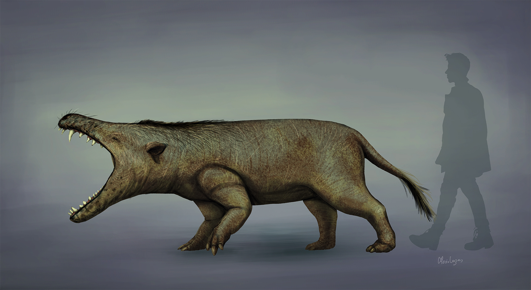 life restoration of Andrewsarchus 2019 by Mario Lanzas